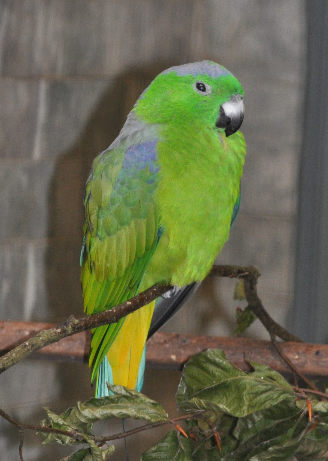 A male Buru Racket-tailed Parrot in the Walsrode Bird Park, Germany.